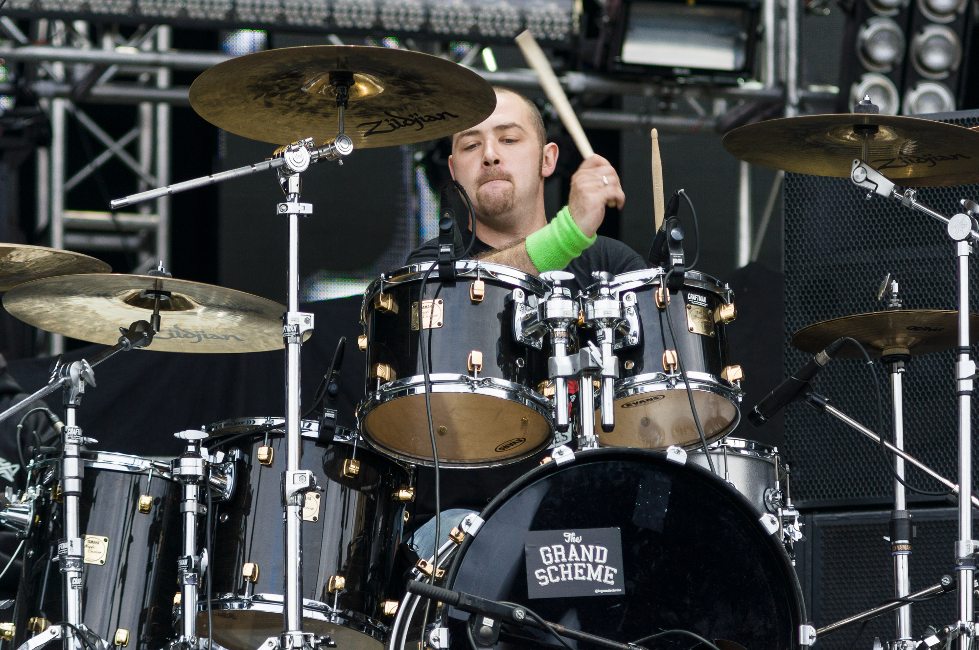 Rafał Tobjasz - drummer of Ametria band. Ursynalia 2012, Warsaw, Poland.